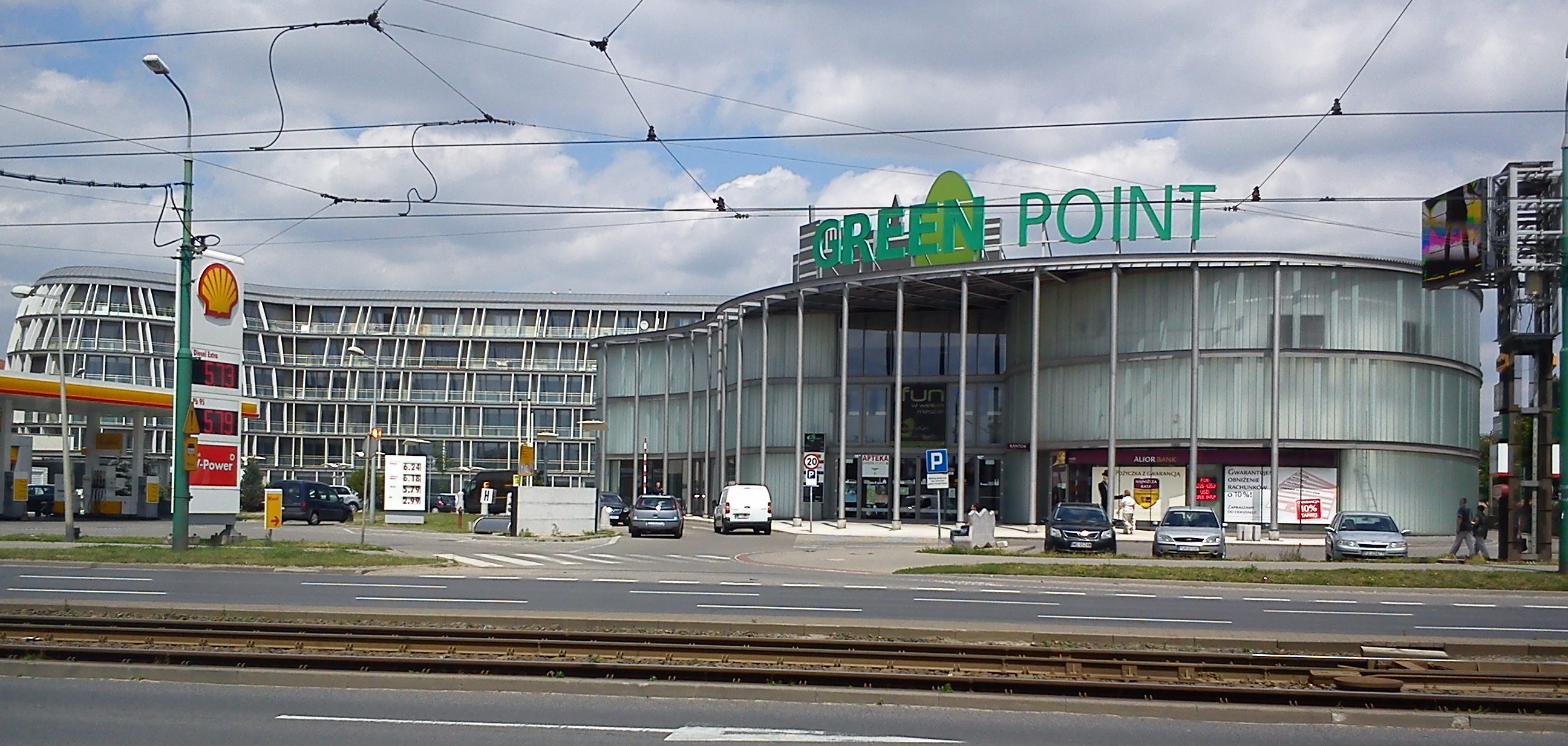 Green Point Gallery - shopping mall in Poznań (Wilda). View from Hetmańska street.